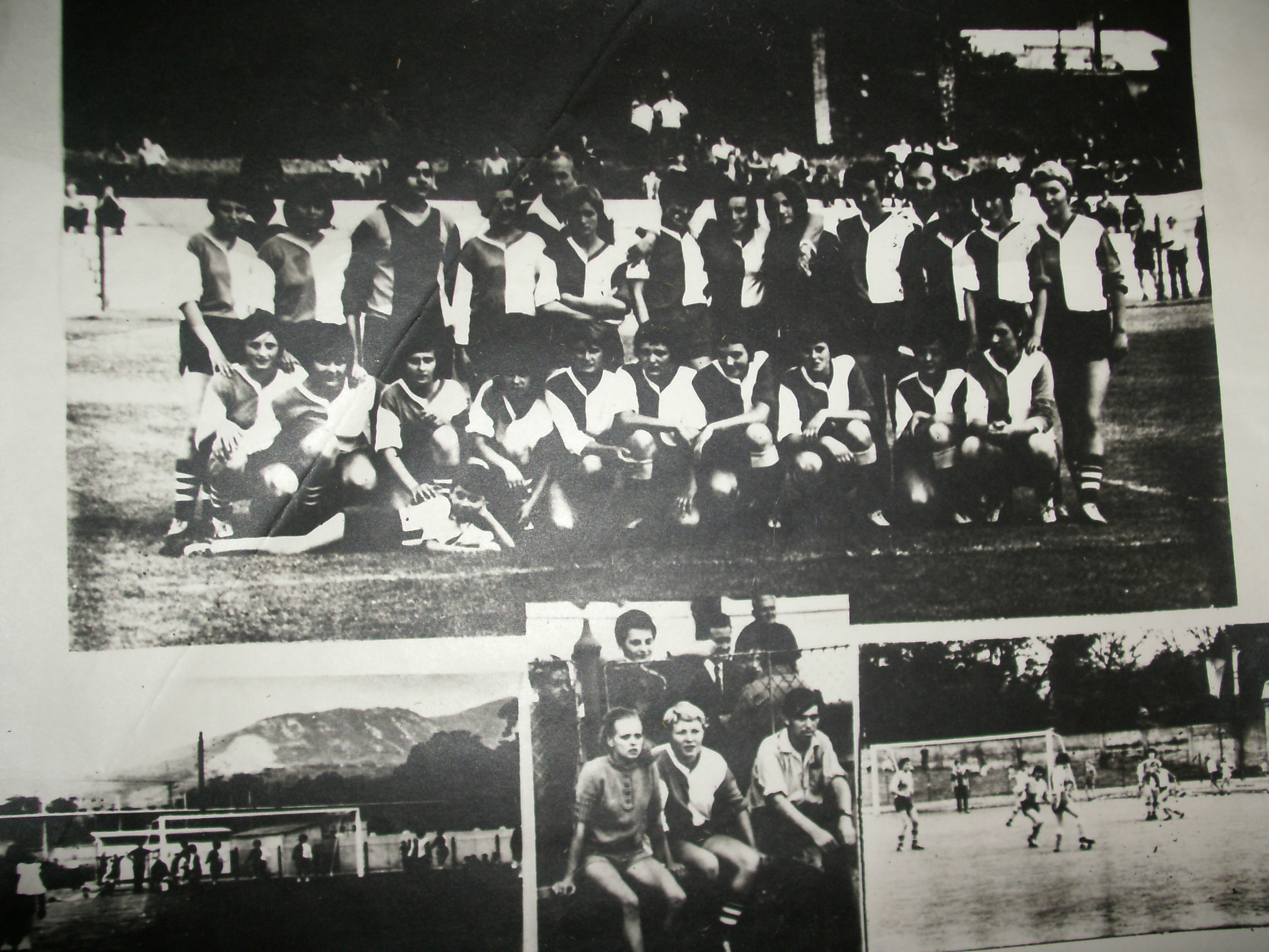 Women soccer players in Dorog